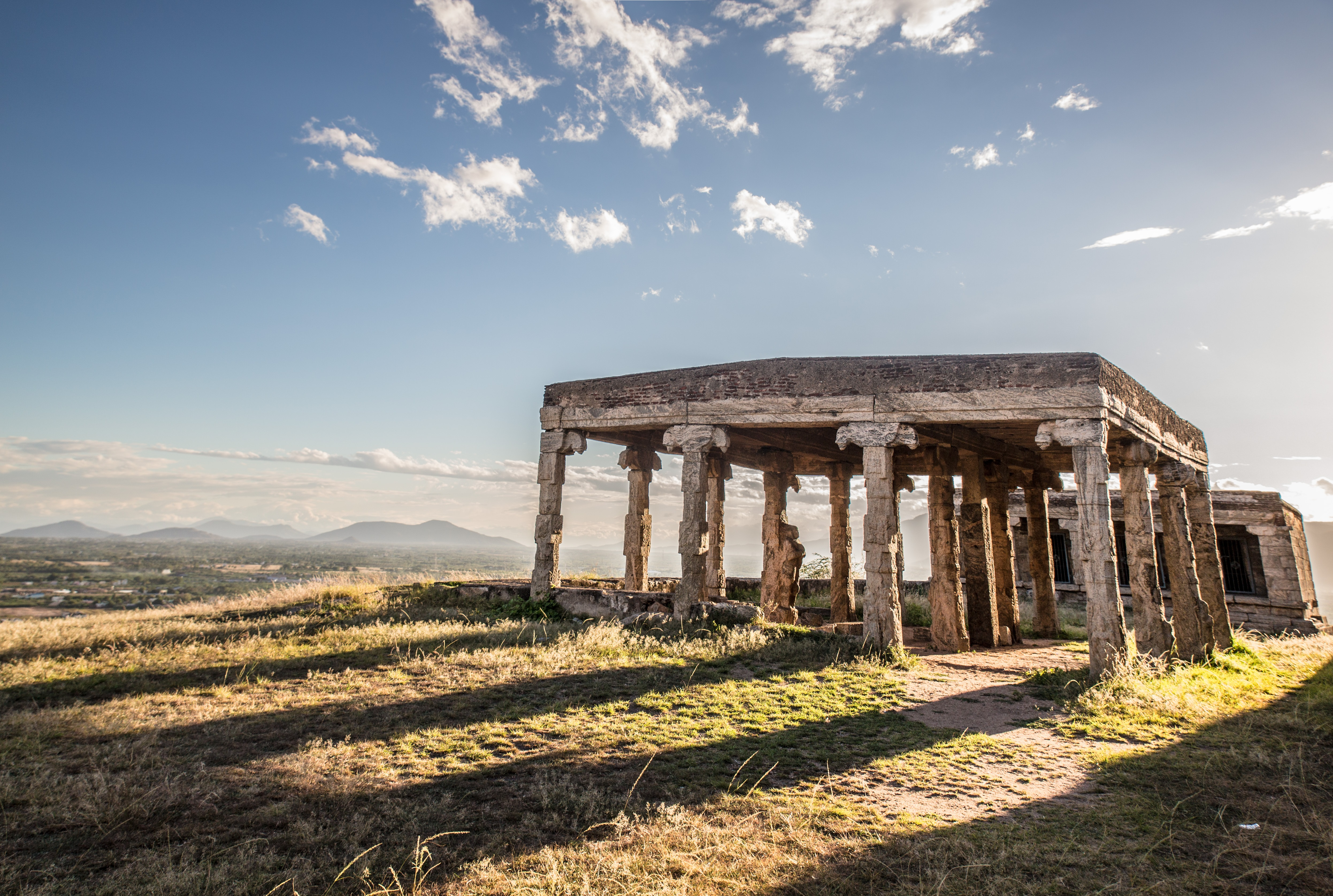 This beautiful 16 pillared mandapam is part of the temple atop the Dindigul fort and was built during the era of the Nayaks in 17th century.